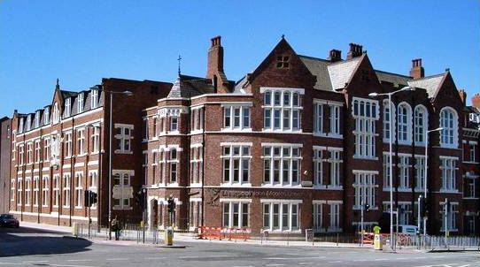 John Foster Building, Liverpool John Moores University. This was formerly the Notre Dame Convent. The facade to the left faces Hope Street. Seen from across Mount Pleasant.